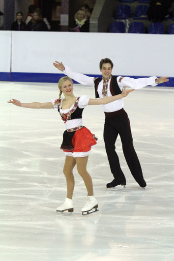 Gabriela KUBOVA and Dmitri KISELEV perform a Czech original dance at the 2010 World Junior Figure Skating Championships